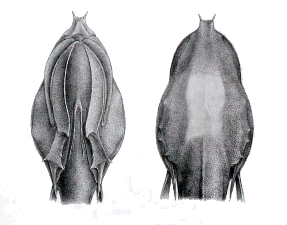 Acanthonus armatus